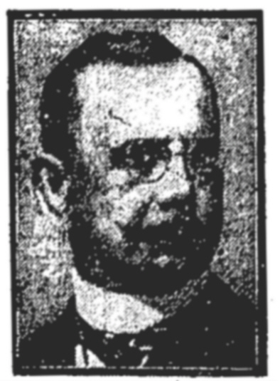 Martin Loibl (1869-1933), Bavarian politician